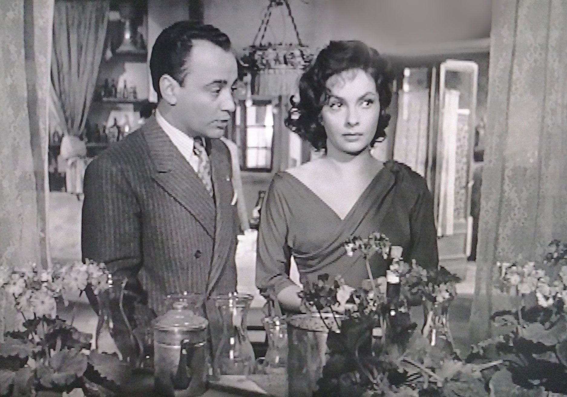 Woman of Rome (1954)